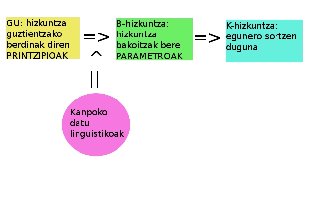 A scheme in Basque language to explain generative grammar: steps from universal grammar to E-language